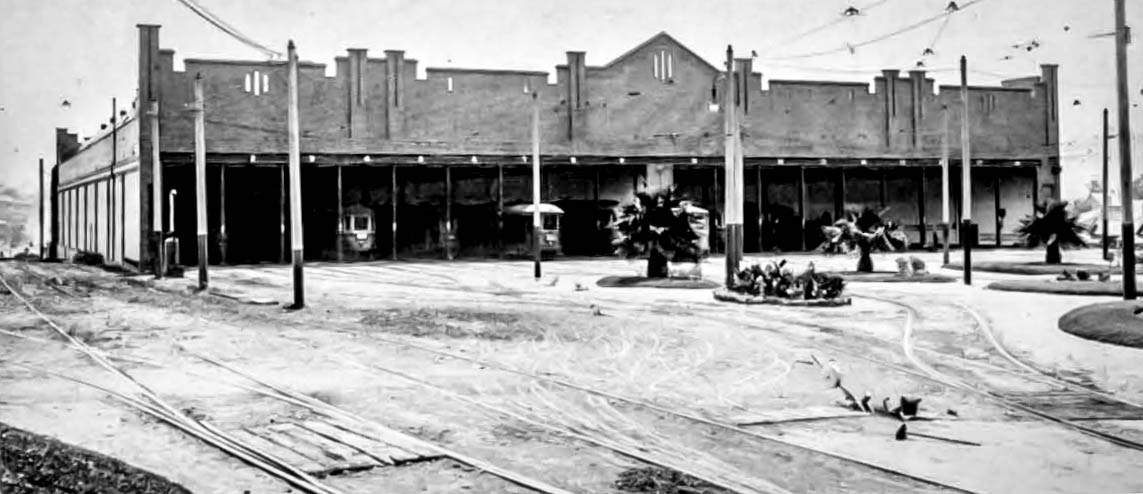 Tempe Tramway Depot c.1920